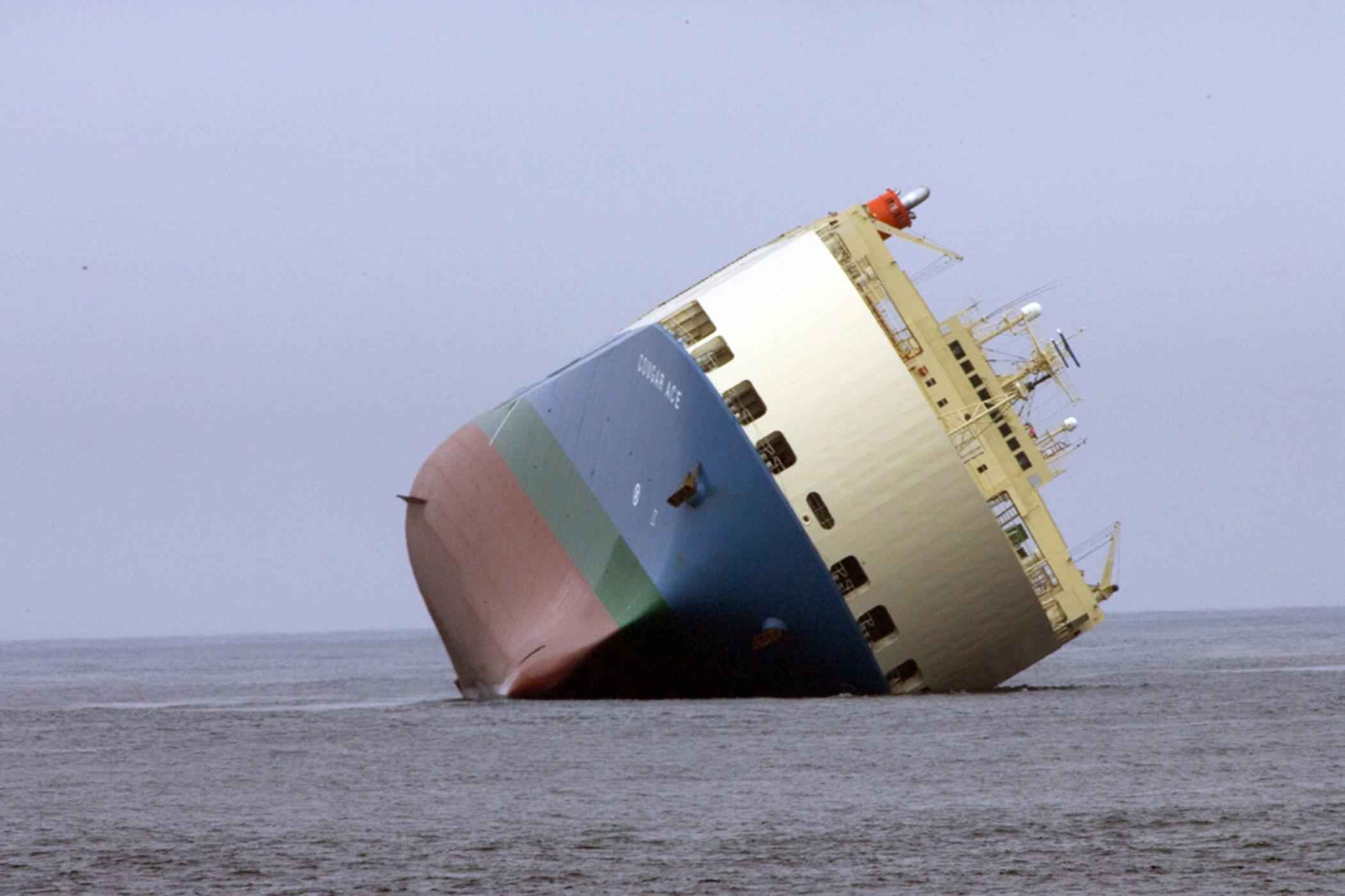 Image title: The Cougar Ace incident Image from Public domain images website